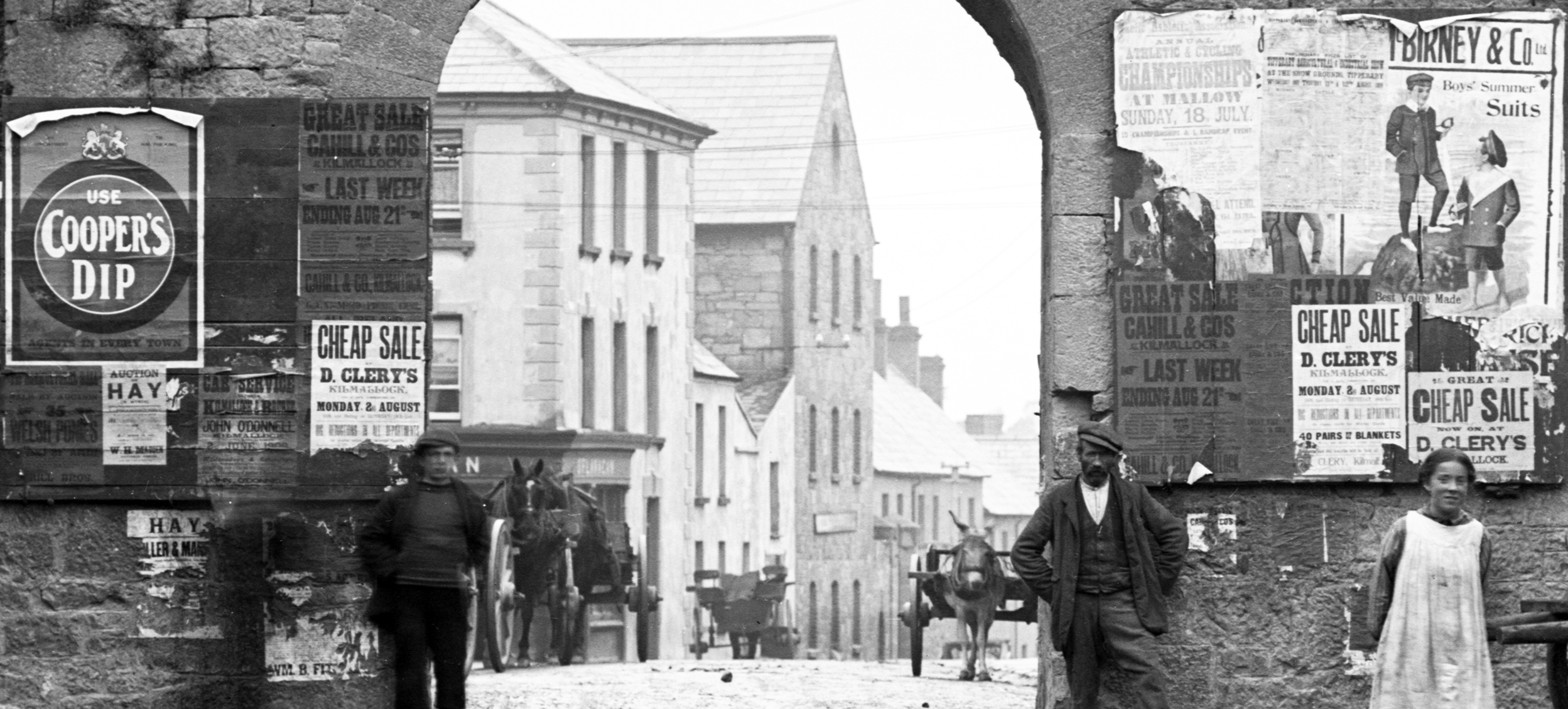 Detail from photo of Blossom Gate, Kilmallock, Co. Limerick. NLI Ref.: L_ROY_10345